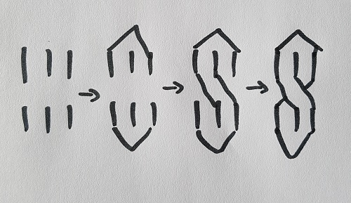 A diagram showing the construction of the Cool S, drawn in felt tip pen on paper.